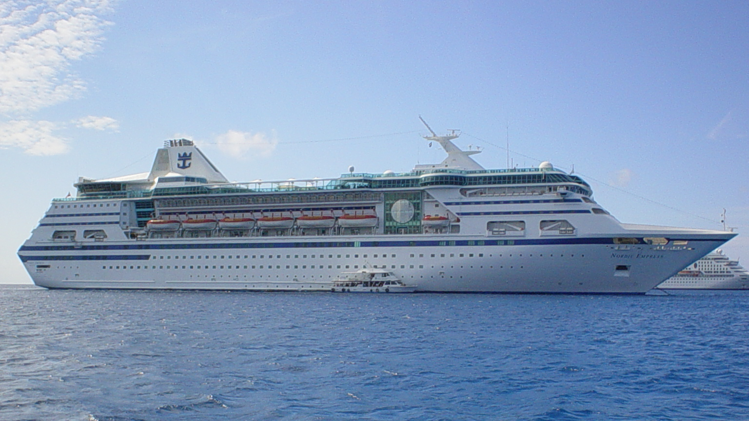 The Nordic Empress anchored off the Cayman Islands in late March 2004.It was refurbished and renamed Empress Of The Seas only a few weeks after the photo was taken. The ship in the background is the Norwegian Wind. Today, both of these ships have been moved to other cruise lines.